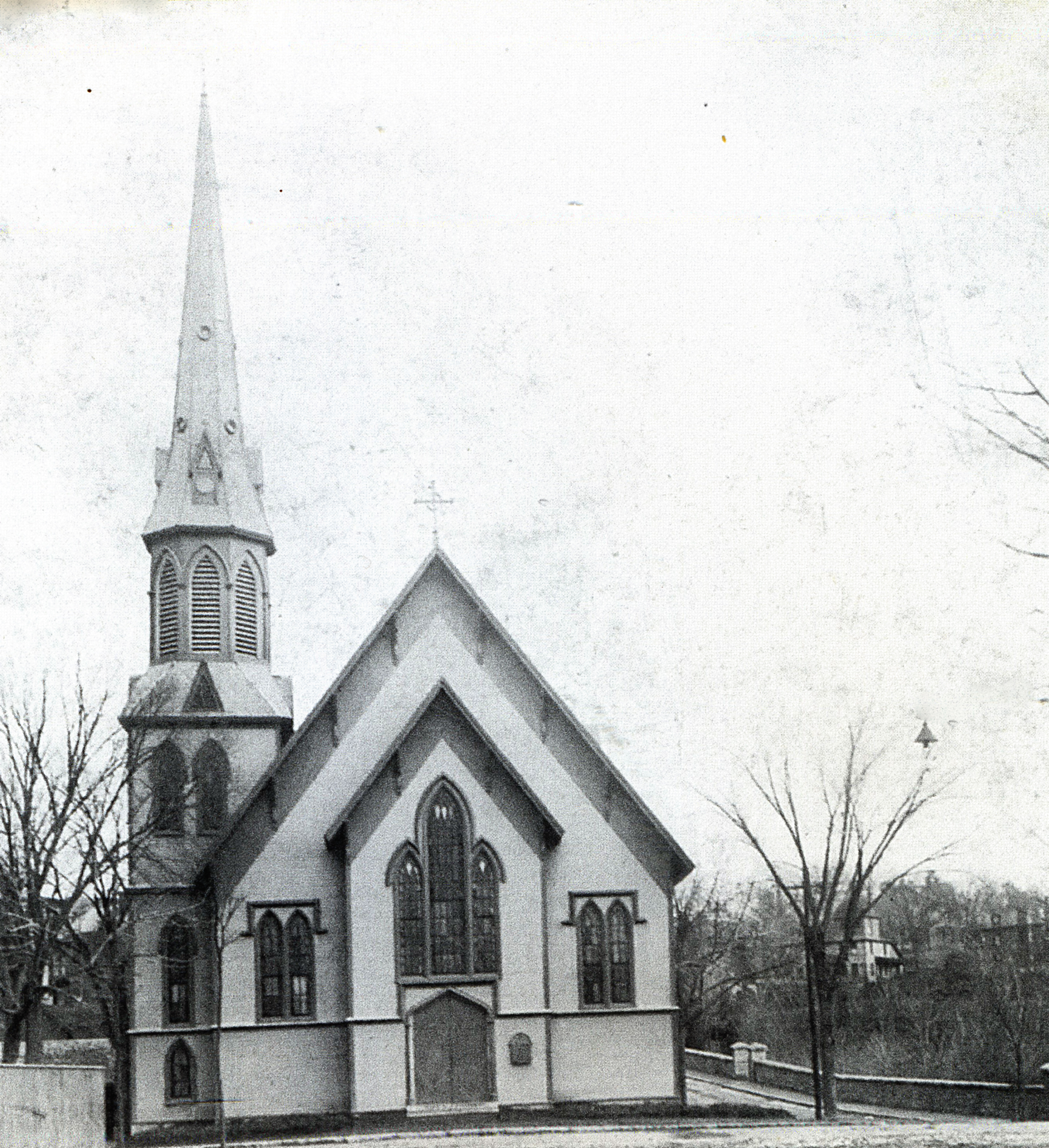 First Baptist Church 253 Lawrence Street in Methuen, Massachusetts. Built in 1869 the steeple was removed in 1913. It is listed in the National Register of Historic Places.